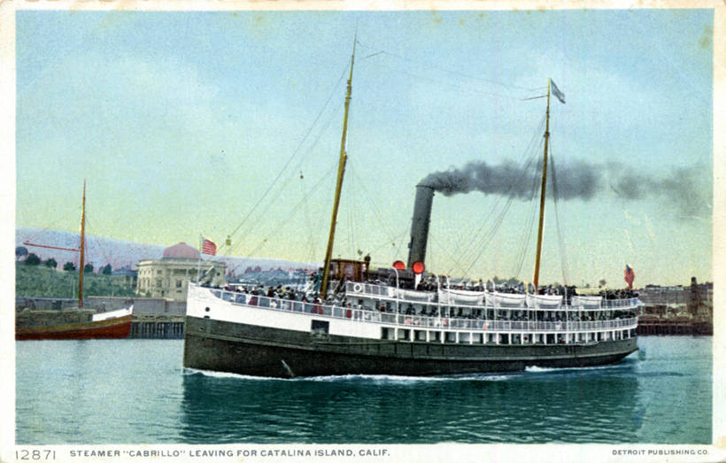 Steamer, Cabrillo, leaving for Catalina Island